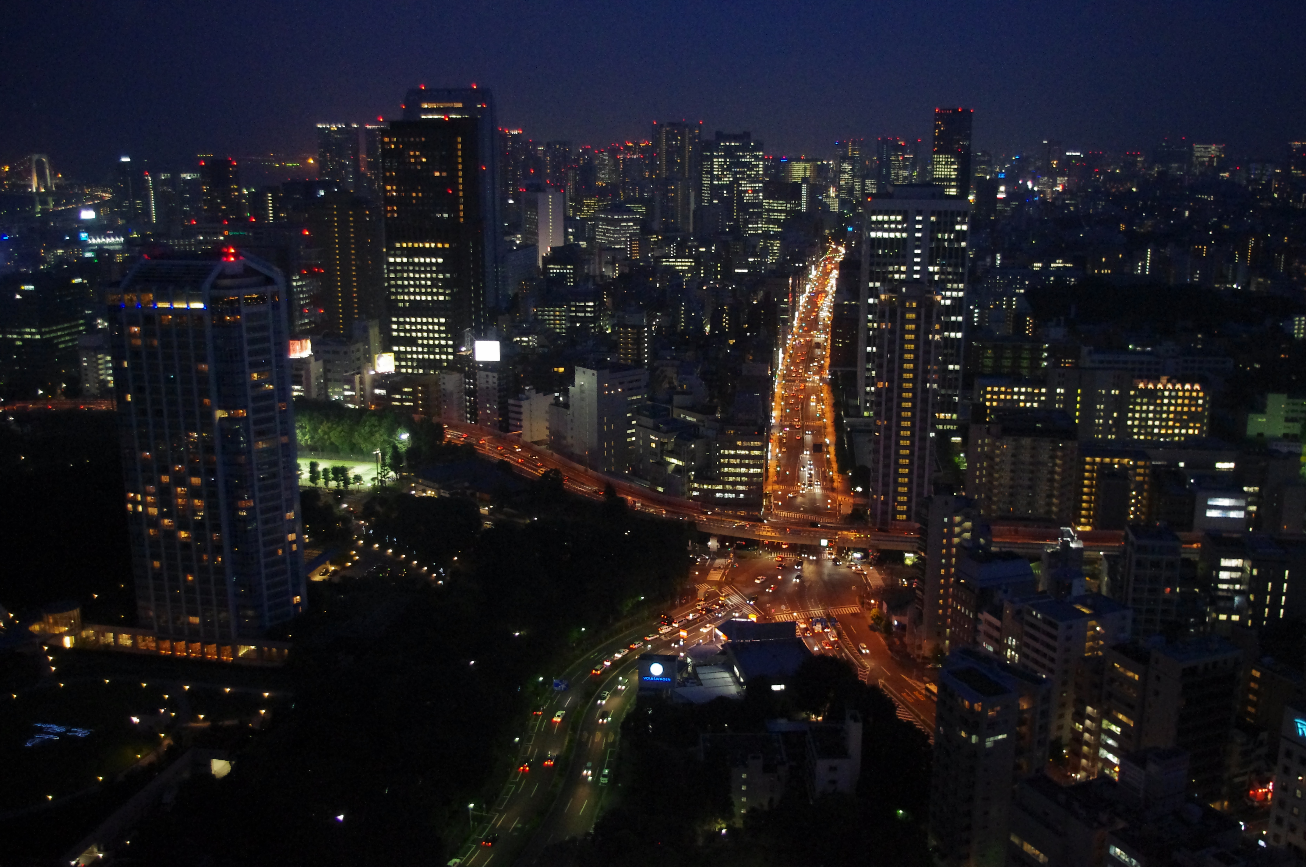 View from Tokyo Tower